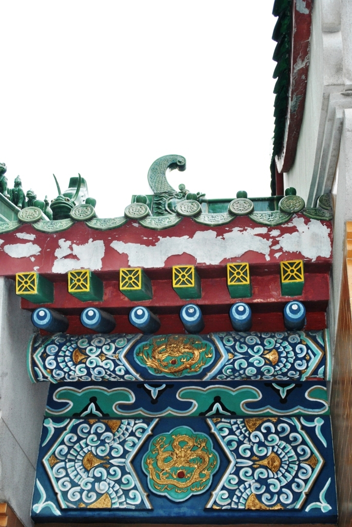 Sik Sik Yuen Wong Tai Sin Temple